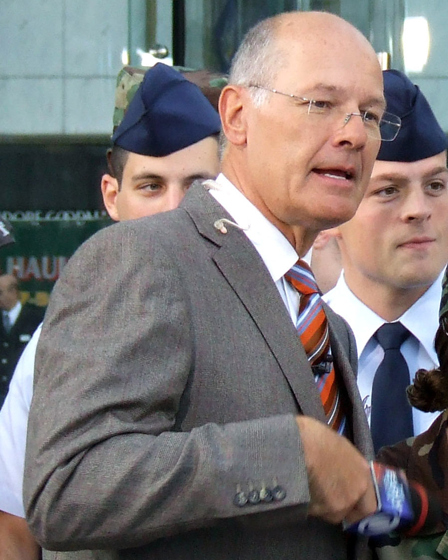 Anchor Harry Smith from CBS' "The Early Show" greets Airmen from McGuire Air Force Base, N.J., during the show's filming Sept. 26, 2010 in New York. In addition to Airmen from McGuire, there were also Airmen from the Air Force Expeditionary Center at Fort Dix, N.J., and cadets and Airmen from the Manhattan College ROTC Det. 560. All were on hand to celebrate the Air Force's 60th anniversary on the nationally televised program. (U.S. Air Force Photo/Tech. Sgt. Rebecca Danet)